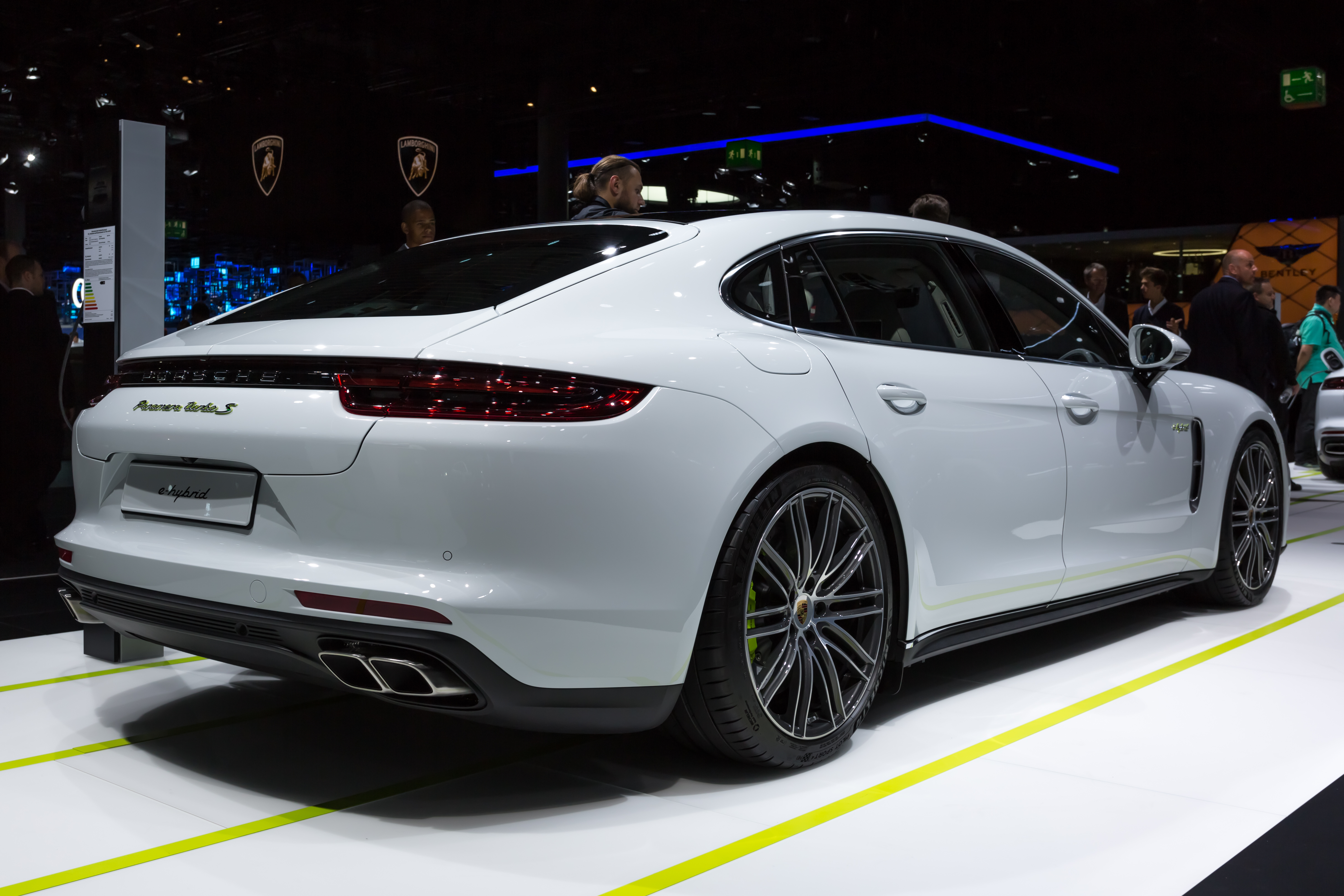 Porsche Panamera Turbo S e-Hybrid, IAA 2017